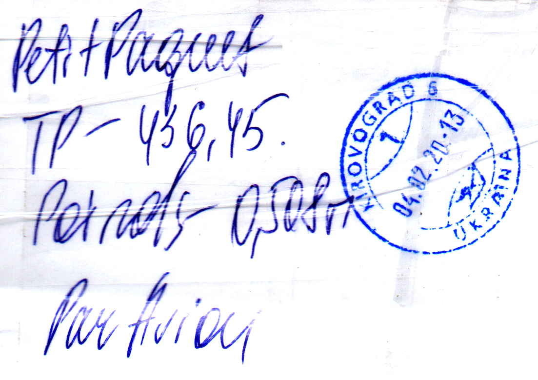 Modern postal clerk PO script (pen) franking with Circular Date Stamp (CDS), Kirovograd (Кіровоград), Ukraine Small package weighing 508 grams (0/508 kg) via Air Mail to United States/